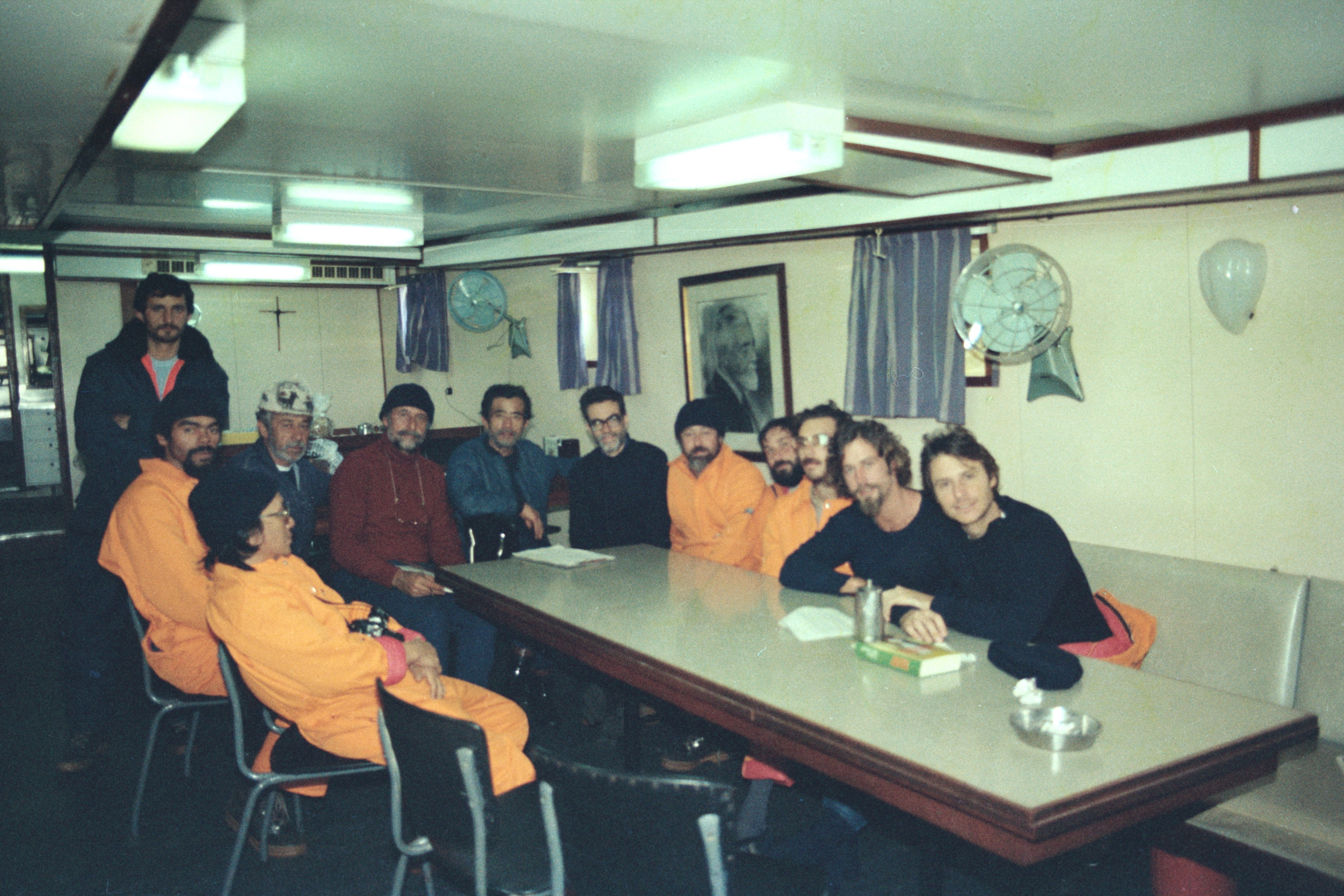 The complete researchers Team. I am standing up.